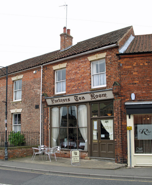 Partners Tea Room. Partners Tea Room, High Street, Barton Upon Humber.